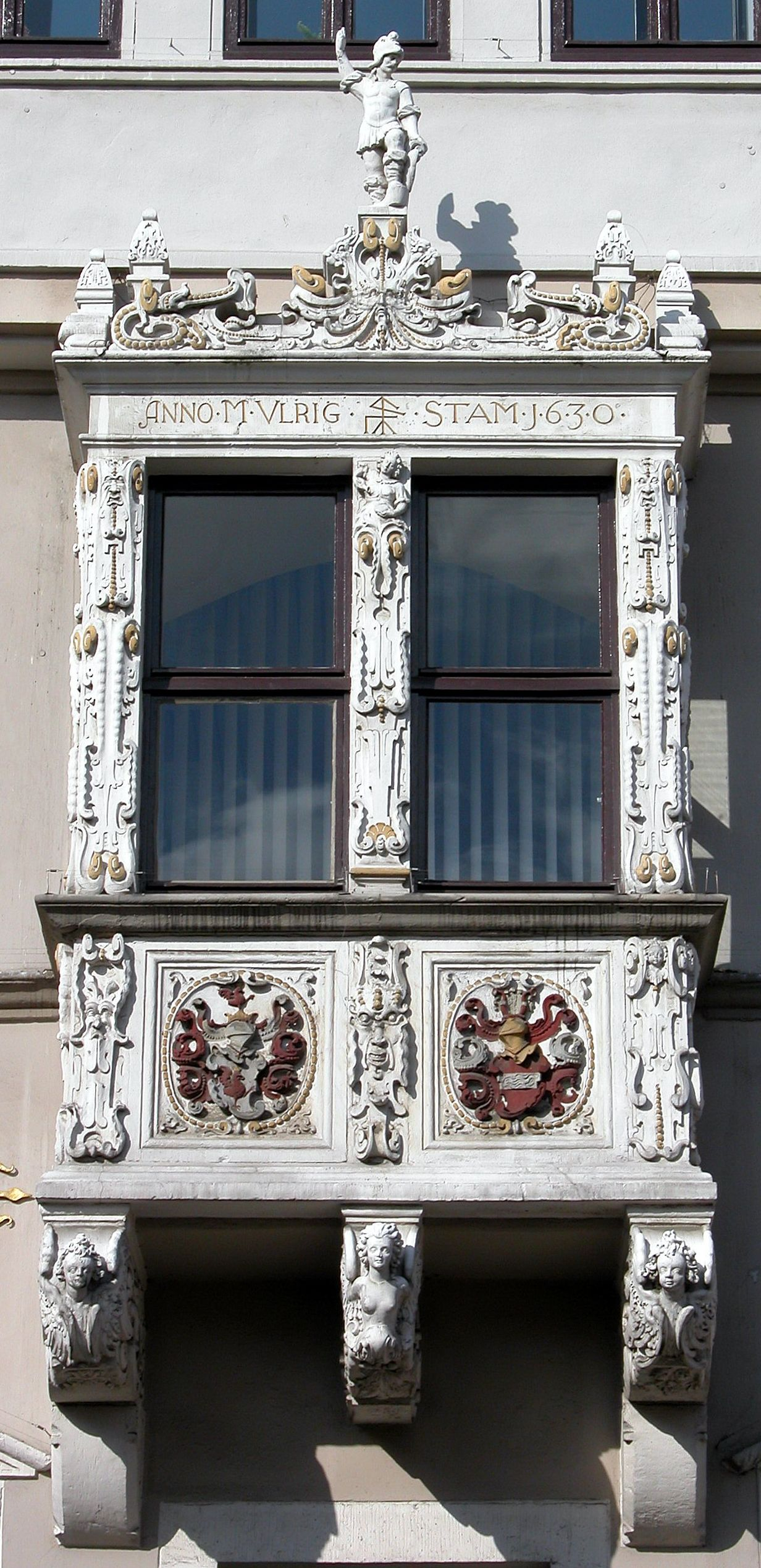 Brunswick, Germany: Achtermann’s House: bay window.